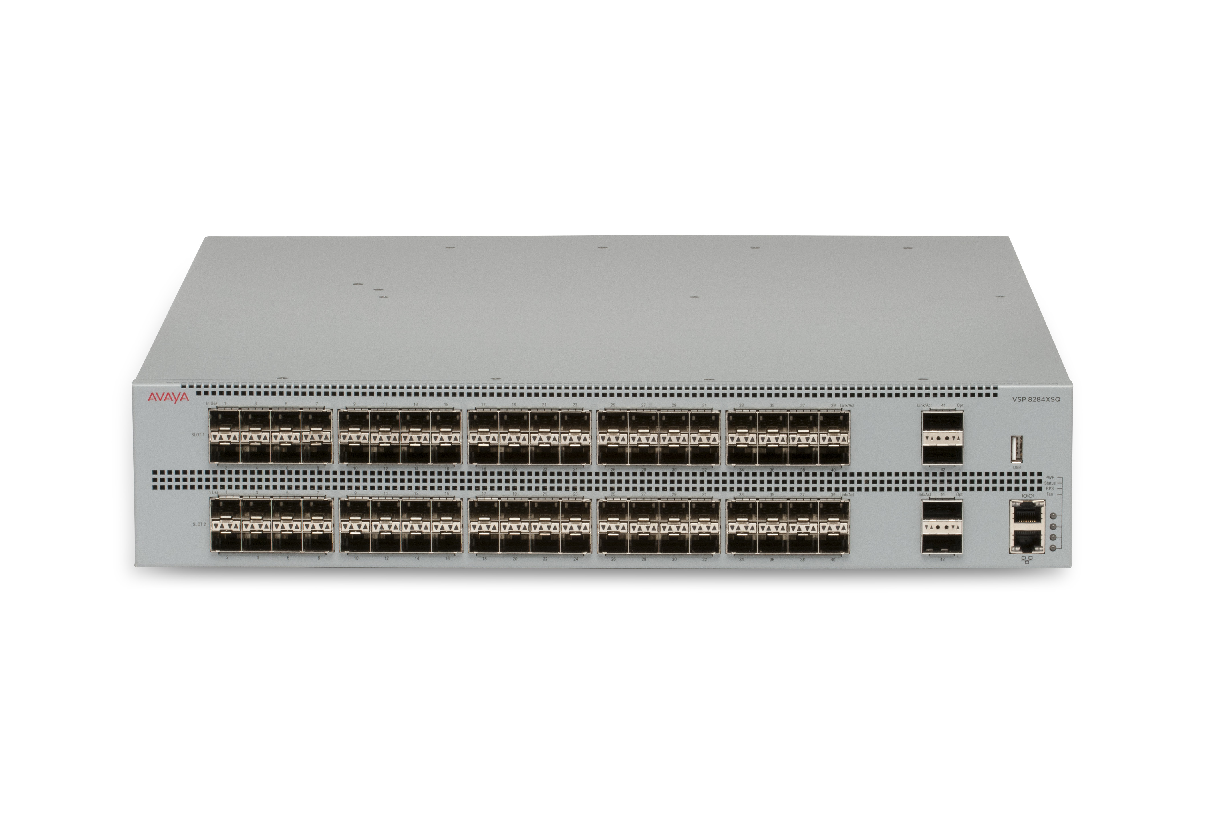 Avaya VSP 8284XSQ 84-port 10/40 Gigabit Ethernet Switch